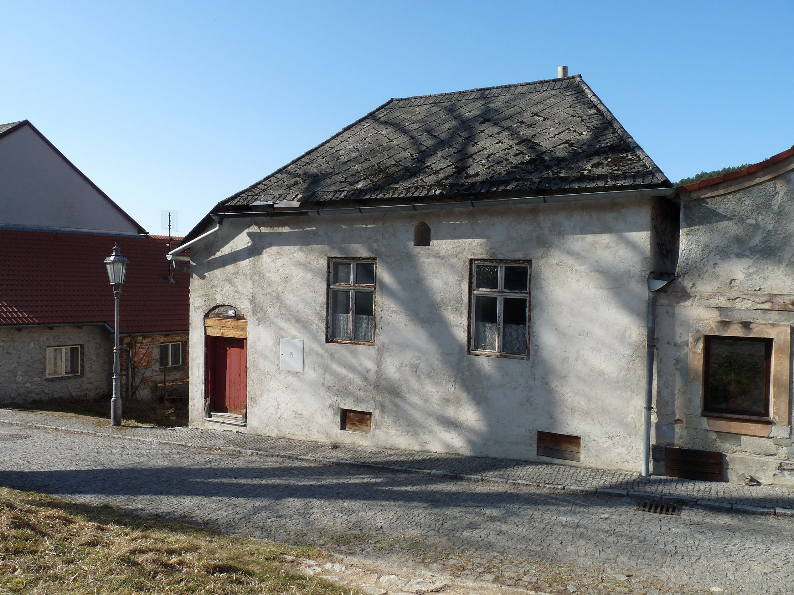 Former synagogue in the town of Rabí, Klatovy District, Czech Republic